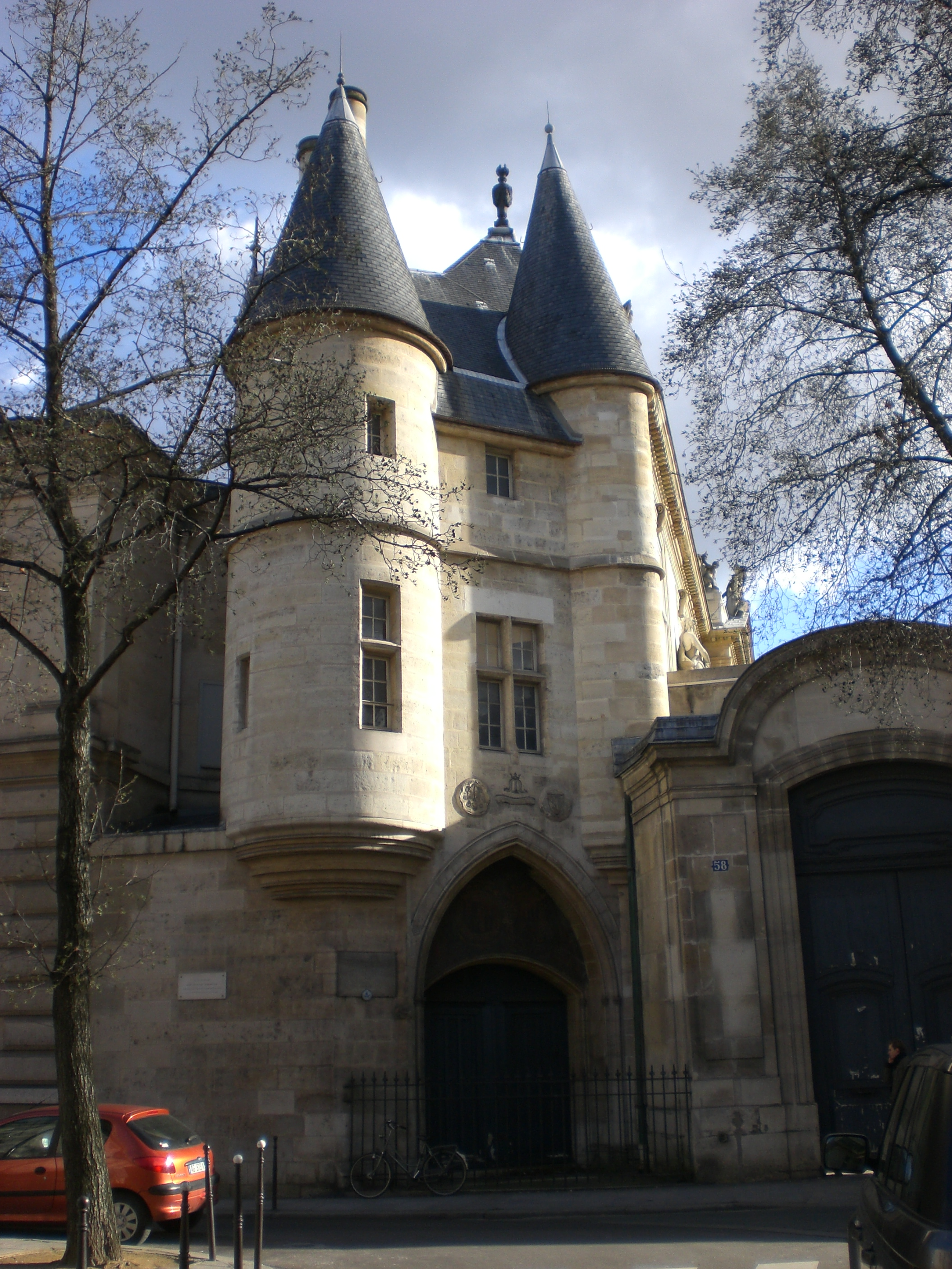 Paris, Hôtel de Clisson, Hôtel de Clisson Century